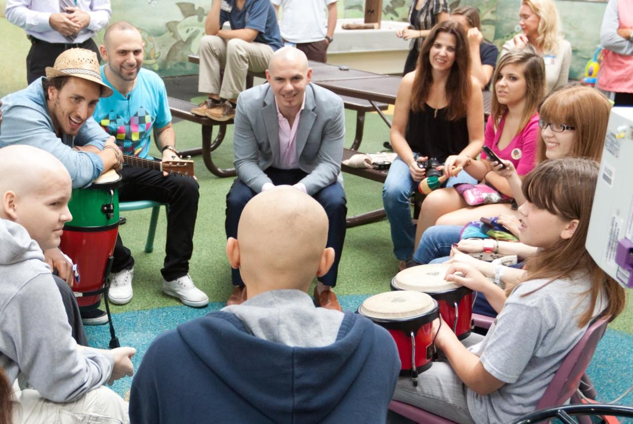 Bisnow with Pitbull visiting the Miami Children's Hospital